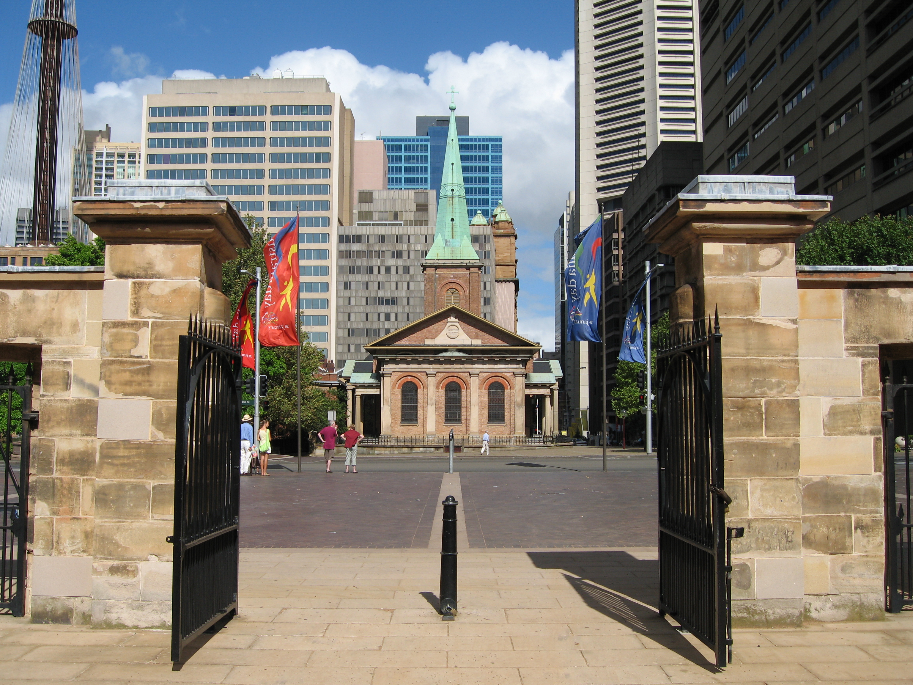 St. James's Church seen from Hyde Park Barracks, Sydney, showing how the architect, Francis Greenway, lined the two buildings up on an axis